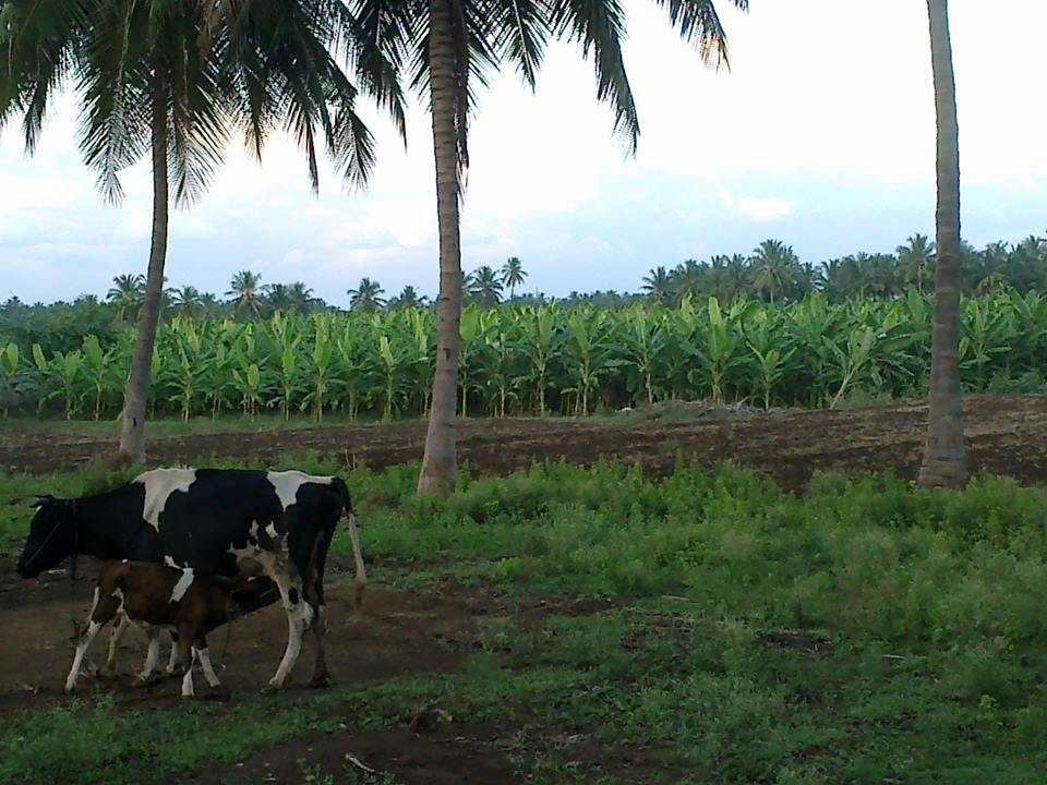 nature's beauty